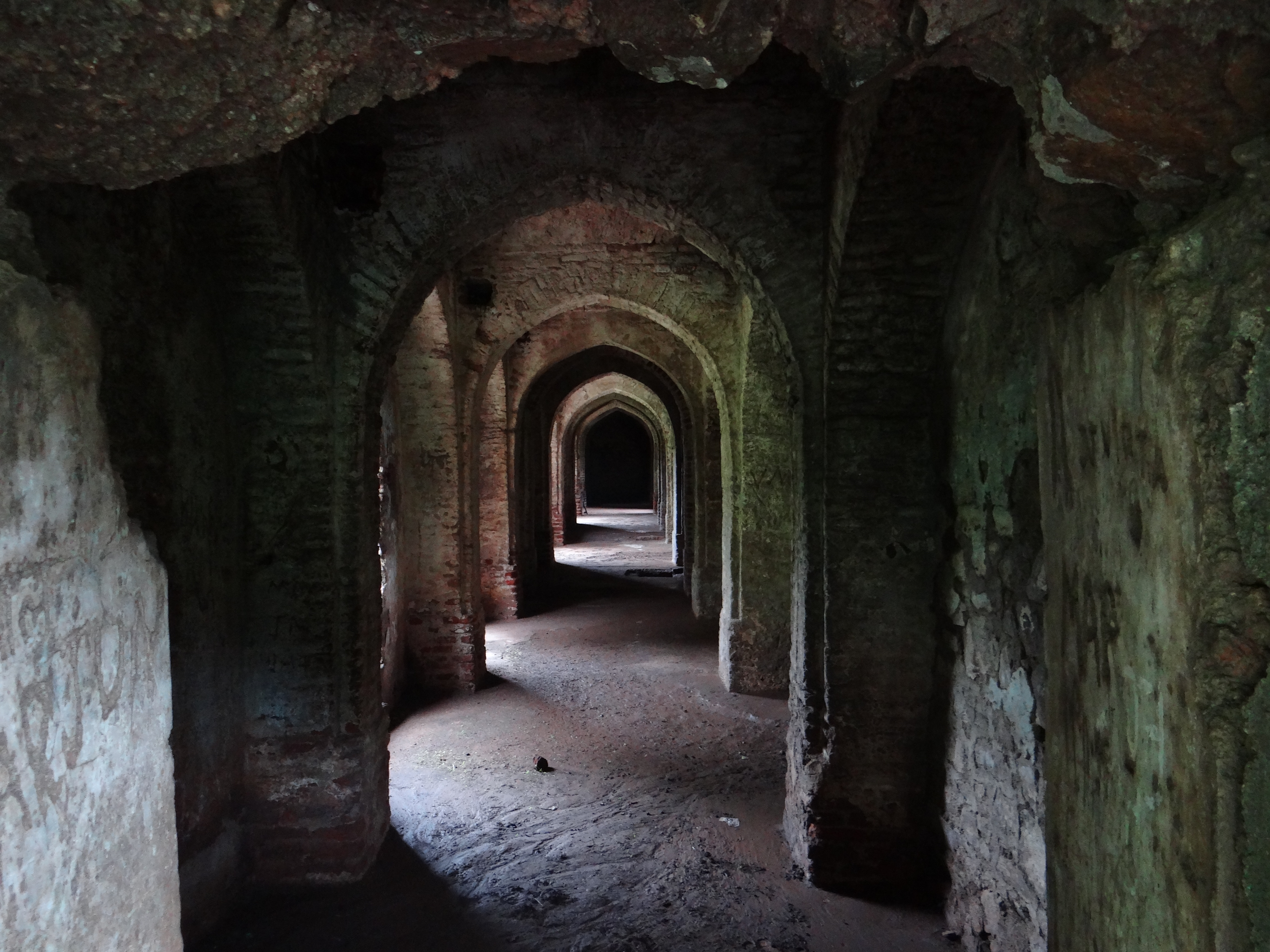 This is a snapshot of the interior part of the Bawa Man's Mosque.